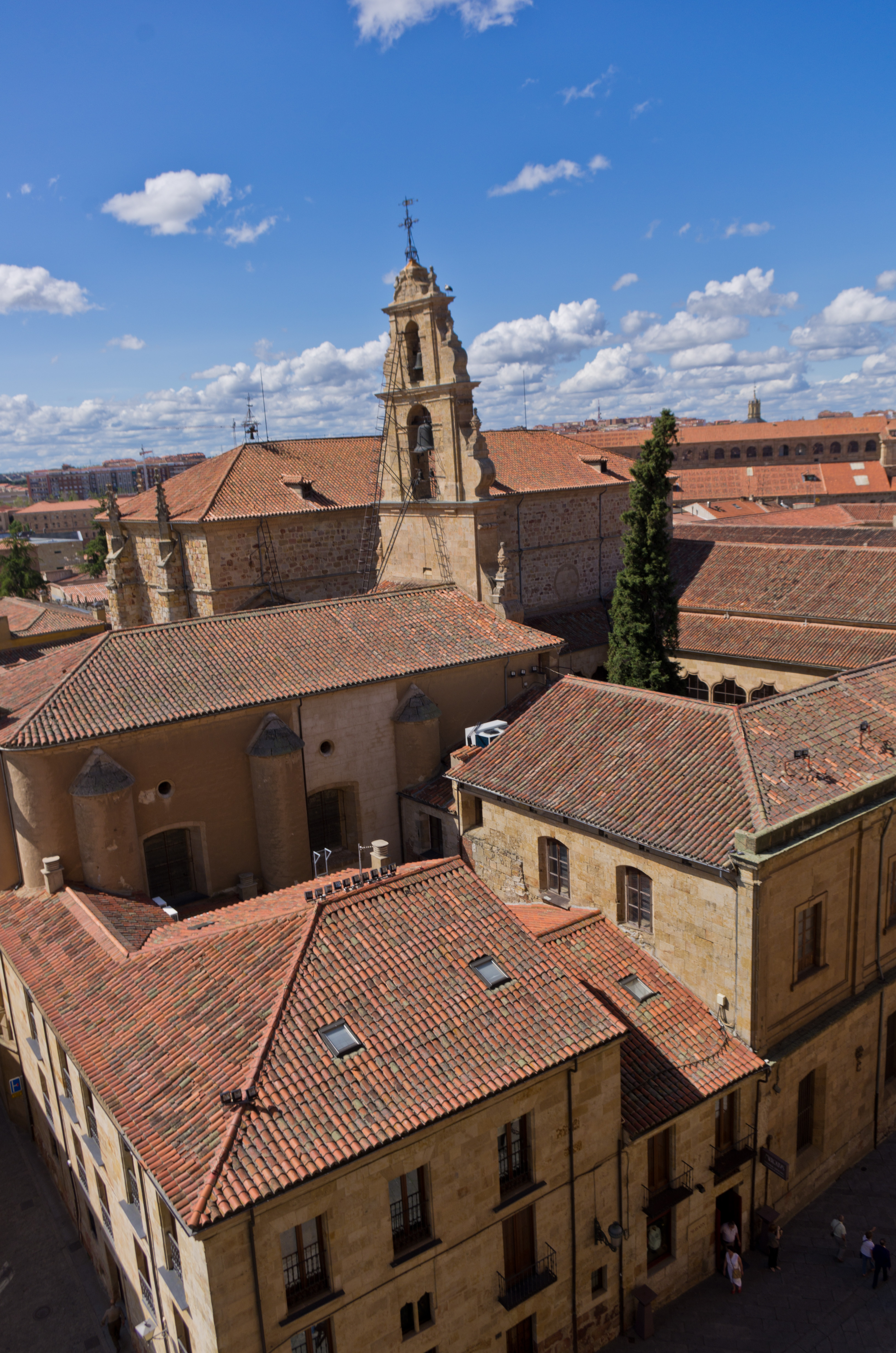 University of Salamanca